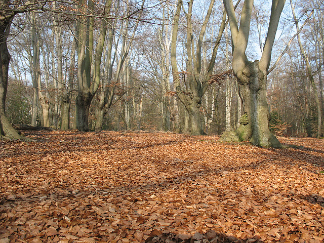 Epping Forest: carpet of beech leaves Beech dominates the mix of mature trees in the forest, and at the end of winter there was still a golden carpet of leaves on the forest floor.